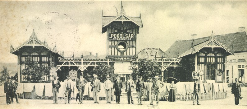 Pokolsár Gyógyfürdő, Kovászna. A fényképet Bogdán F. fényképész készített K. Vásárhelyt. A képeslapot, melyen a fénykép látható 1902. július 14-én keltezte Péliné Melani.